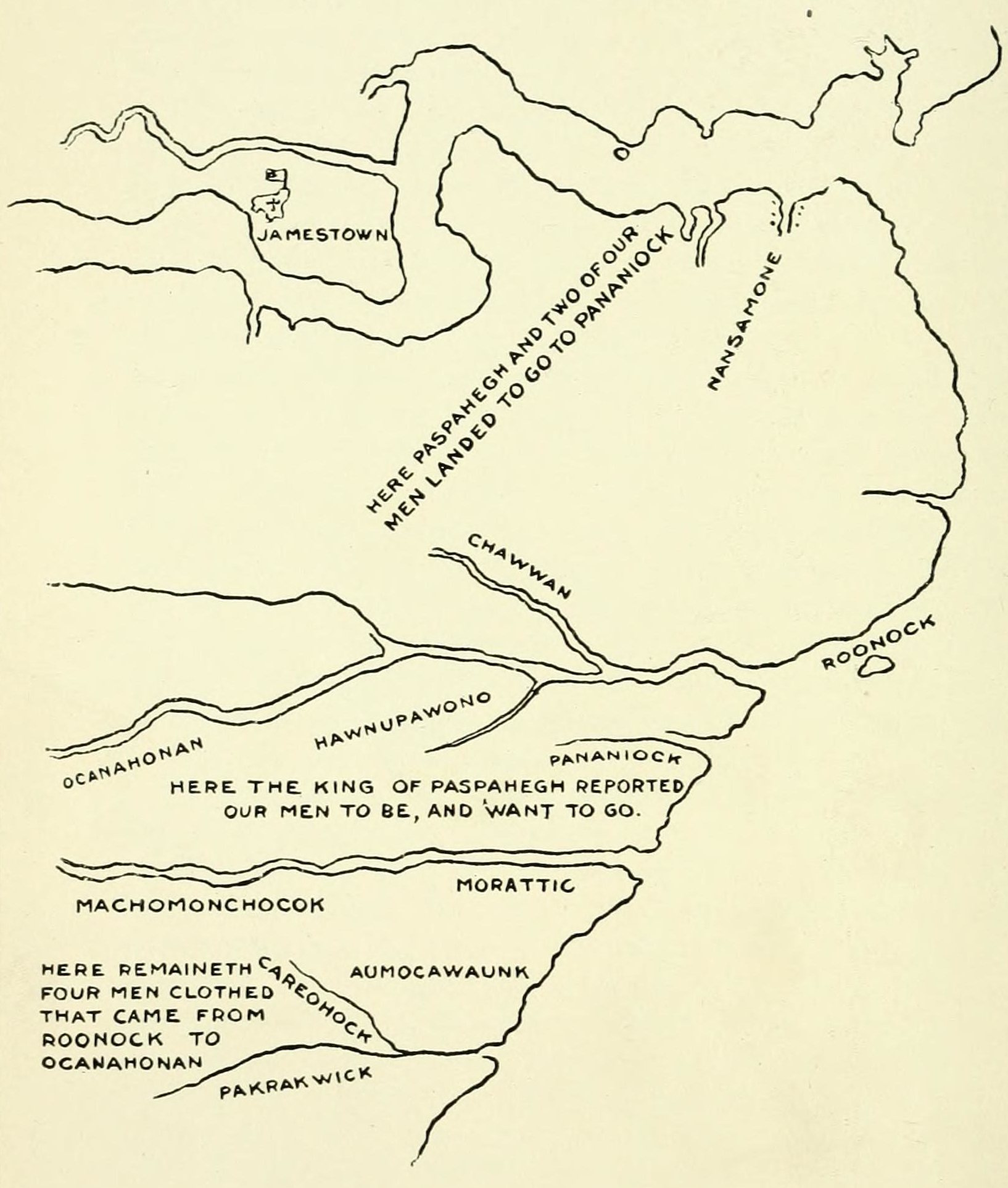 The Zúñiga Map, from "History of North Carolina," vol. 1 by Samuel A'Court Ashe (1908). Redrawn by Ashe from the version published in "The Genesis of the United States" by Alexander Brown (1890). The map depicts information gathered from Native Americans by the Jamestown colonists in 1608, including details believed to be related to the Lost Colony of Roanoke. The original map is now lost, but a copy obtained by Pedro de Zúñiga was preserved in Spanish archives.